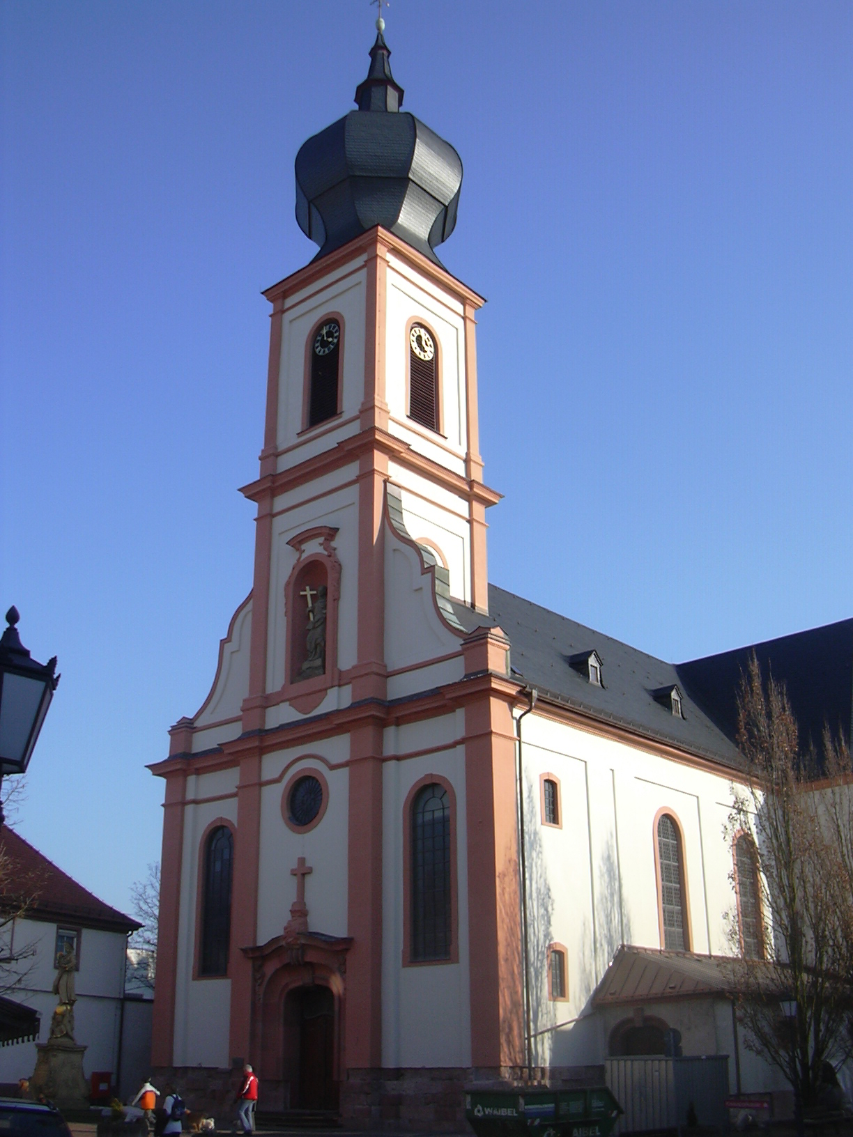 Gernsheim, 18th century church